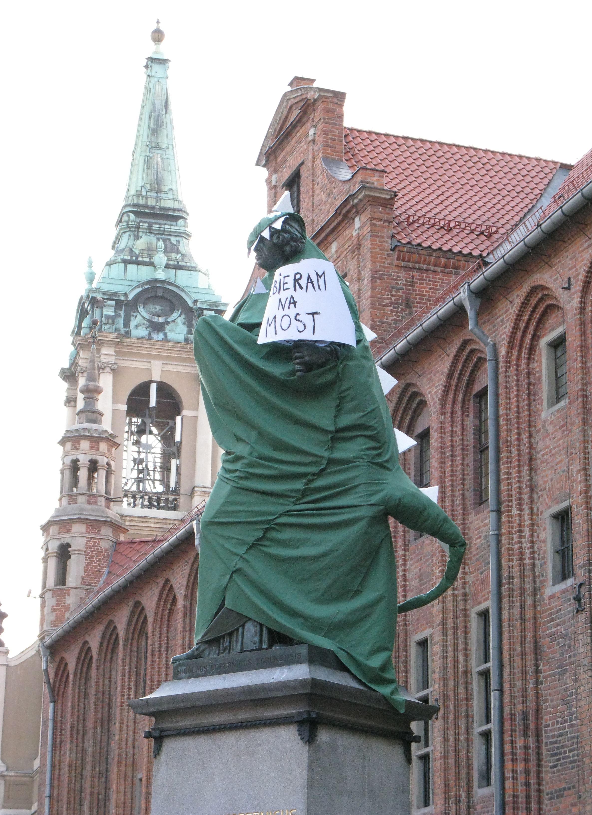 Nicholas Copernicus monument in Toruń at Juwenalia